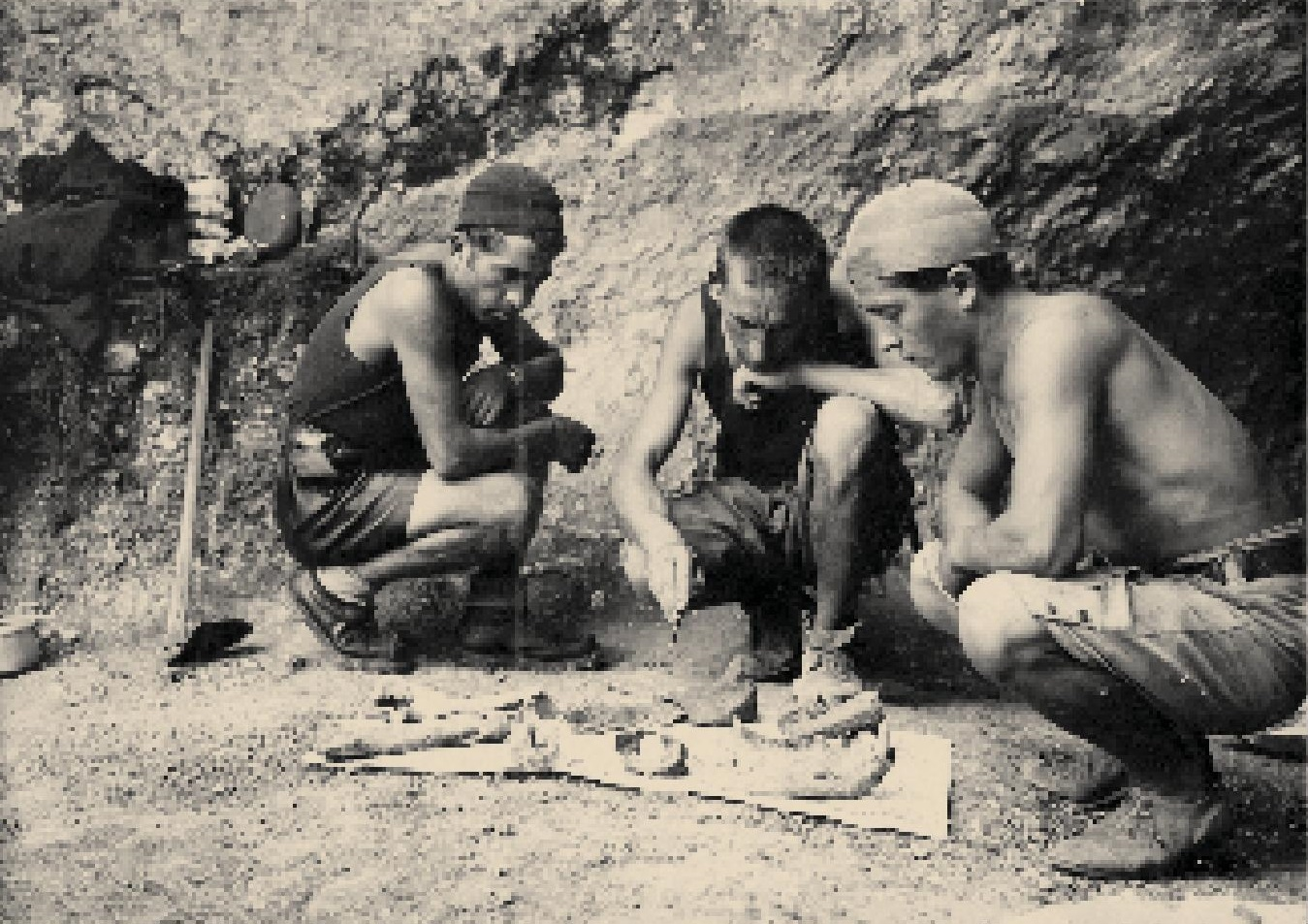 Farkas-kő Cave. Bear bones.